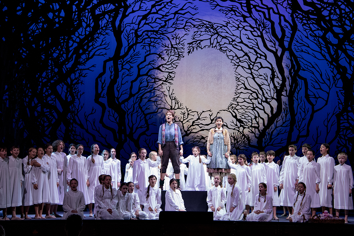 Hänsel und Gretel, Staatsoper Wien 2015